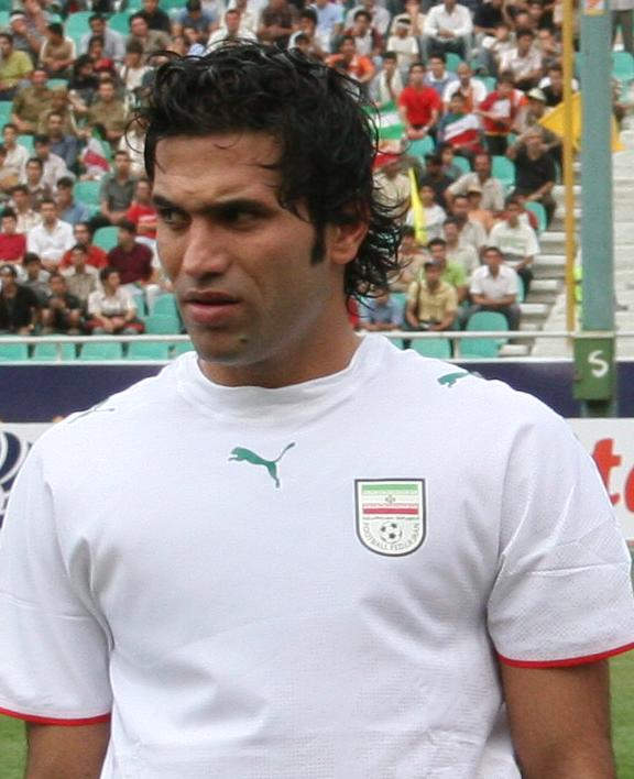 Alireza Nikbakht in 2006